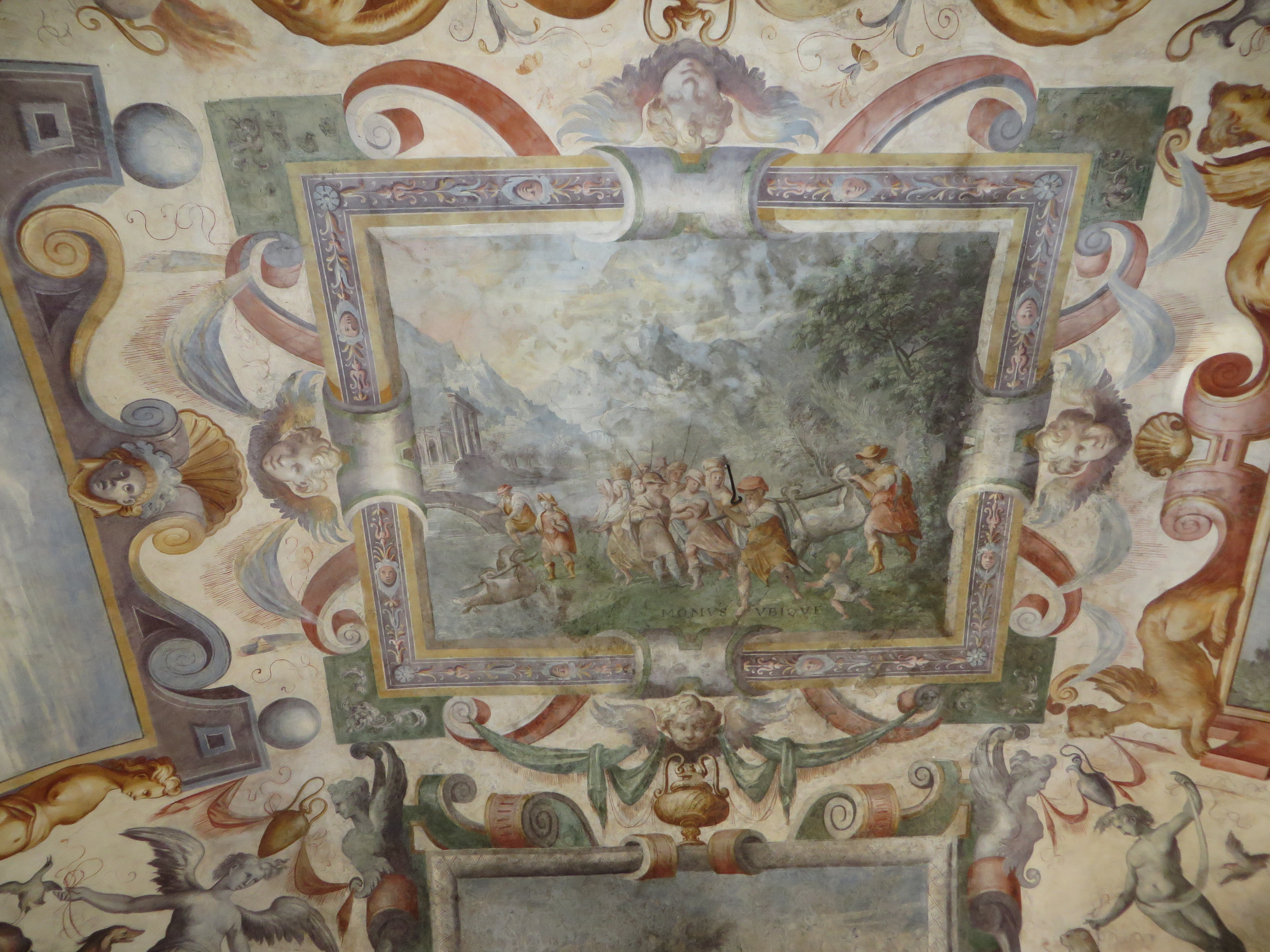 Rossi Castle San Secondo 2